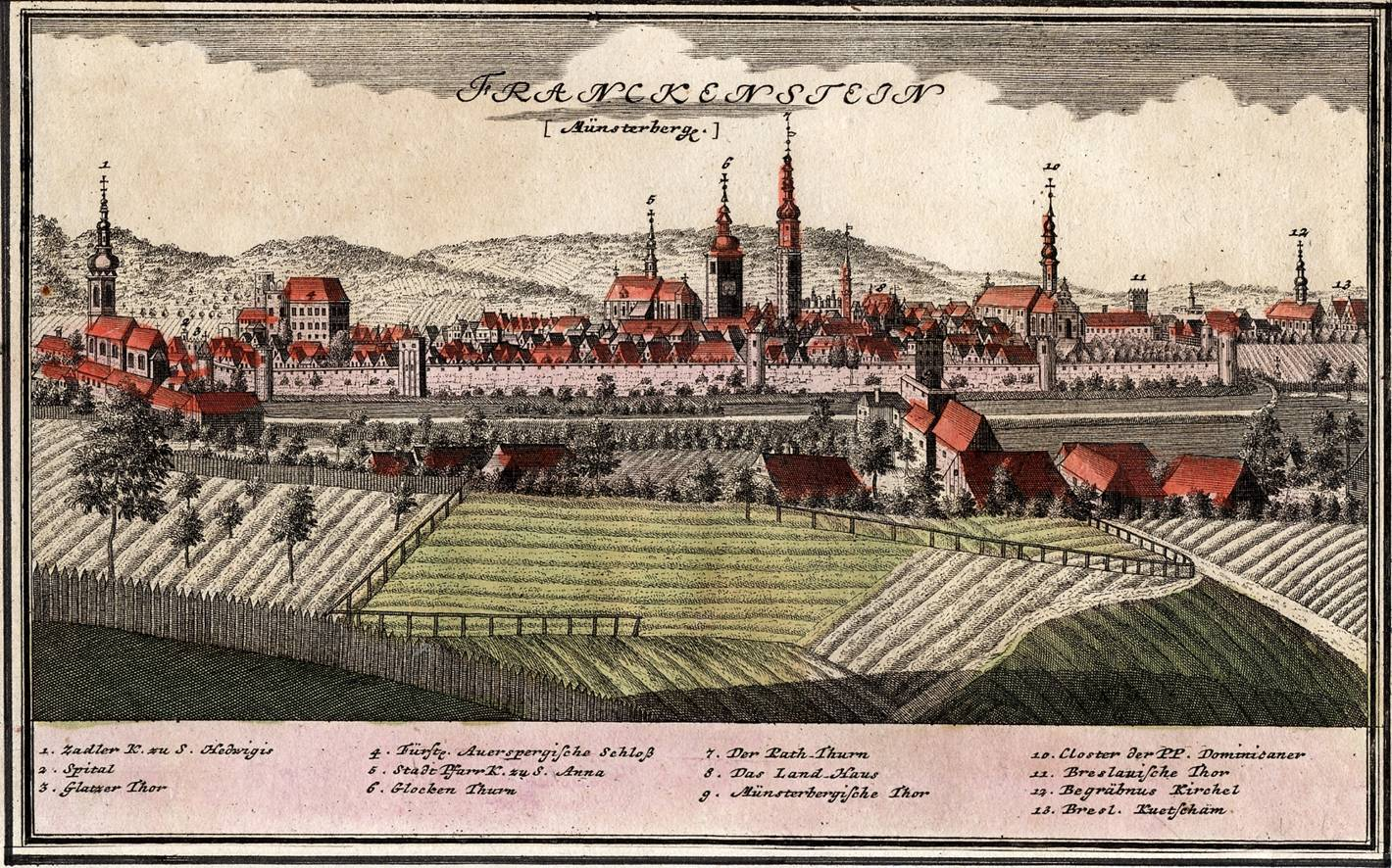 The city of Frankenstein in Silesia before the Thirty years war.